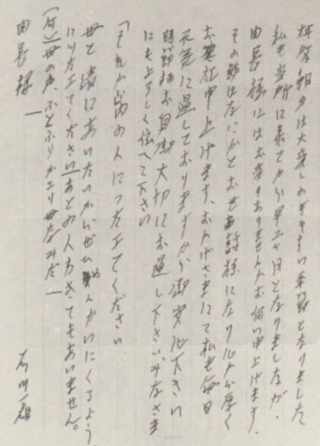 The letter to Genzo Seki from Kazuo Ishikawa, 1963.